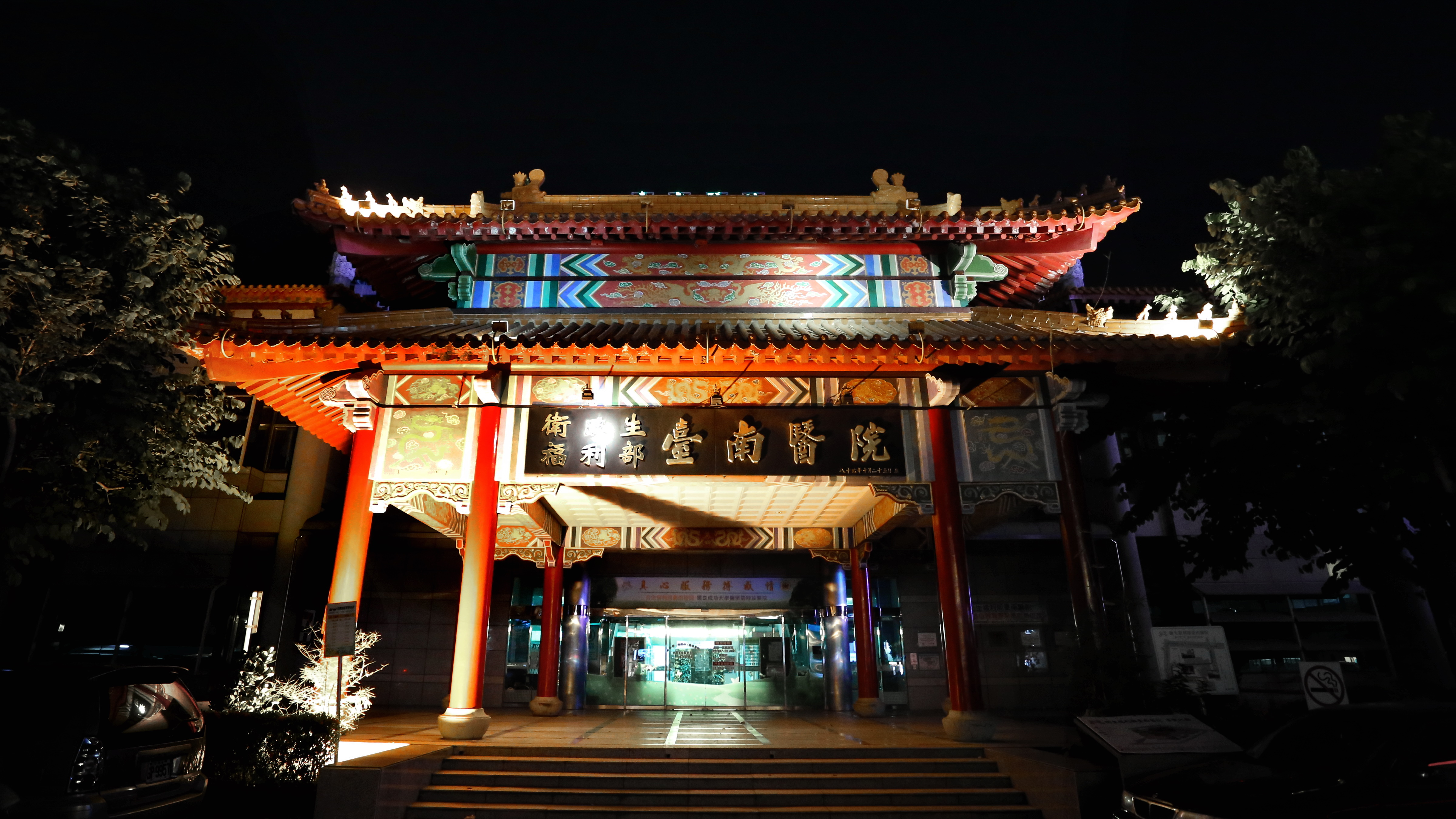 Tainan Hospital, Ministry of Health and Welfare, Tainan, Taiwan.